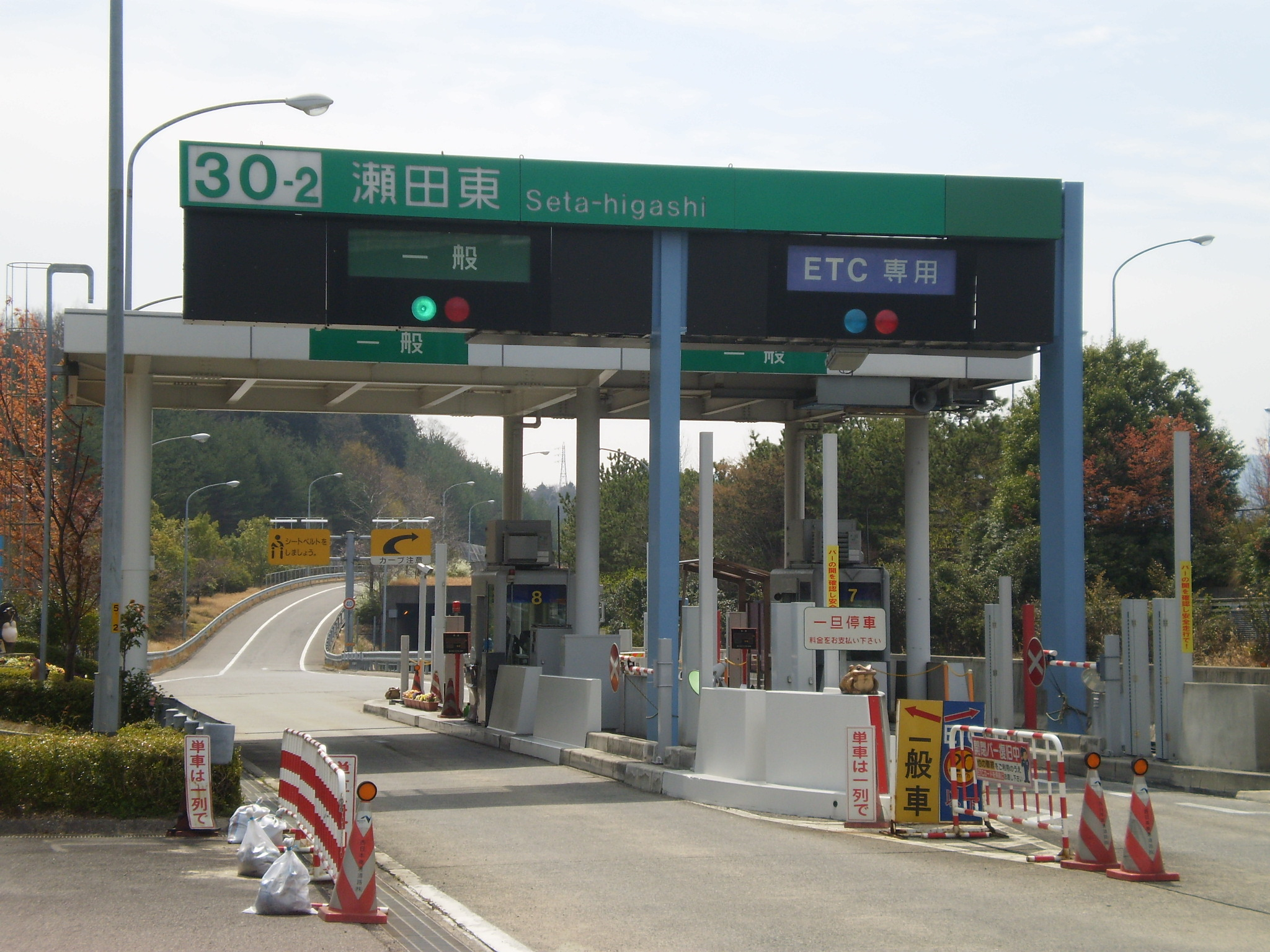 Seta-higashi interchange of Meishin Expressway. I took this image at Oe-8chome Otsu City Shiga Pref., Japan.